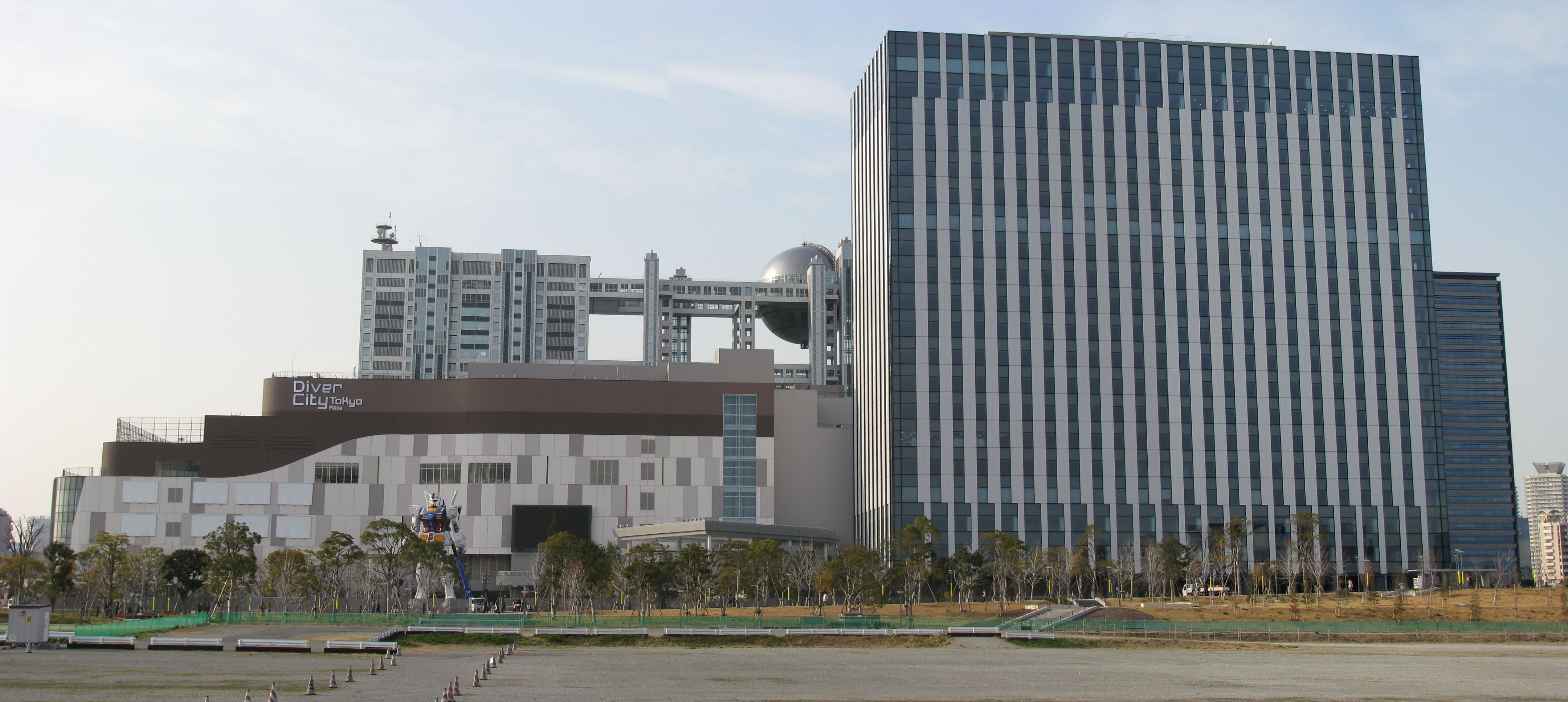 Diver City Tokyo. This place is Aomi in Kōtō, Tokyo, Japan.